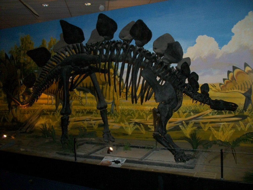 Stegosaurus model at Dinosaur Museum, Canberra, Australia.